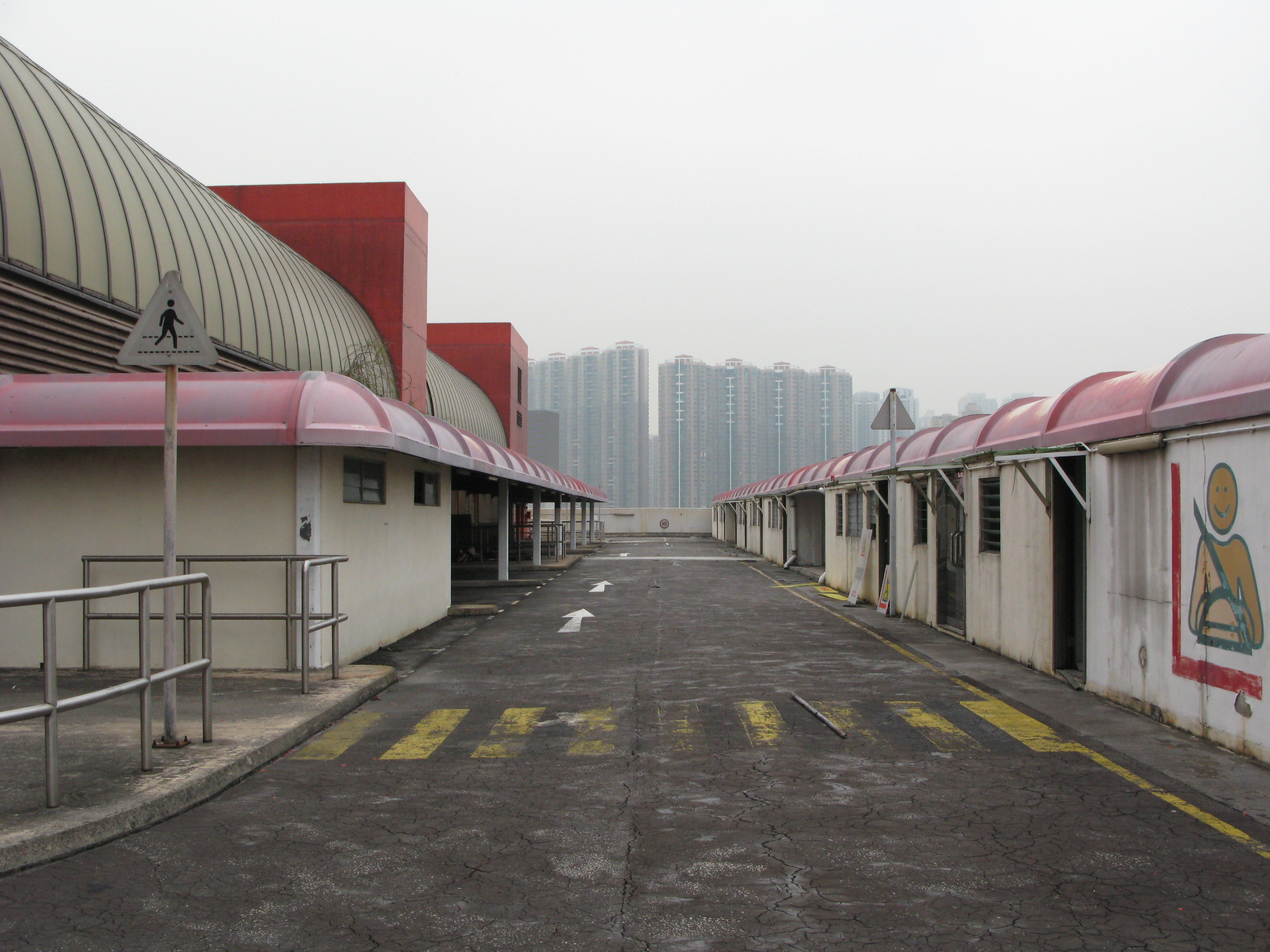 Tsuen Wan Transport Complex Roof